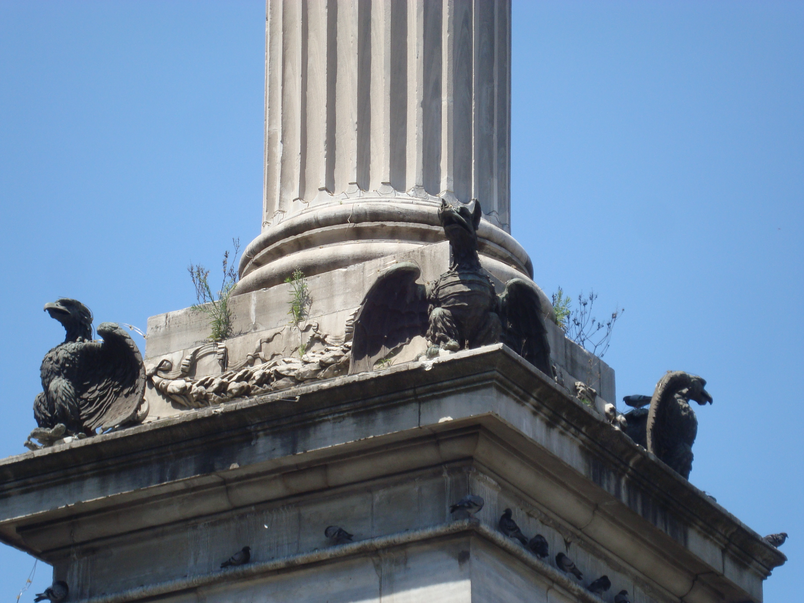 Detail of the Peace Column in Rome